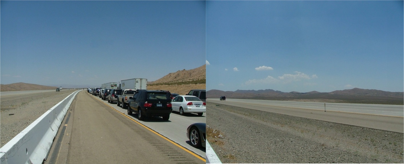 Q or no Q - I-15 in Mohav e Dessert near Barstow, California in two directions.